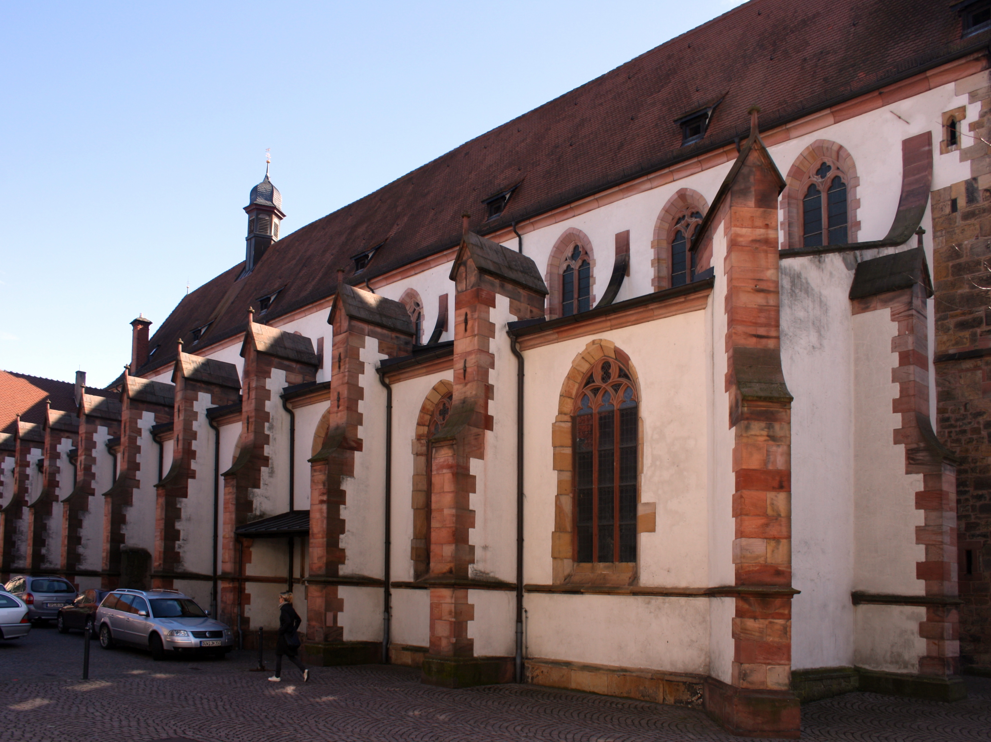 Landau in der Pfalz, Germany, Stiftskirche from North.